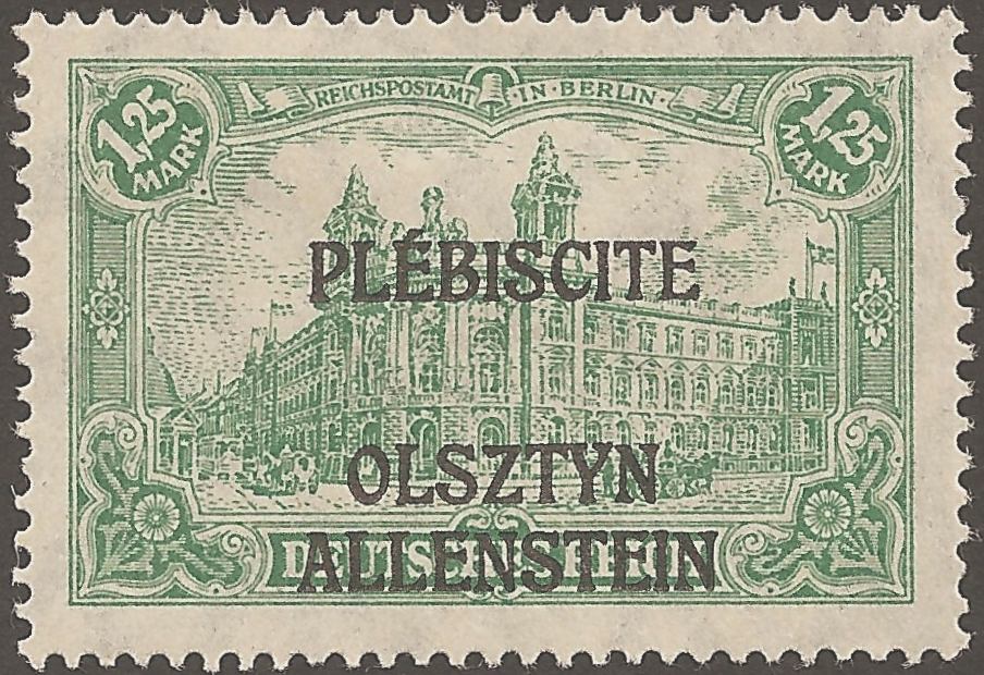 Stamp of Germany (Reich post office in Berlin, 1900 design, stamp issued 15 March 1920) overprinted to be used in Allenstein (now Olsztyn, Poland) and issued there in April/Mai 1920.